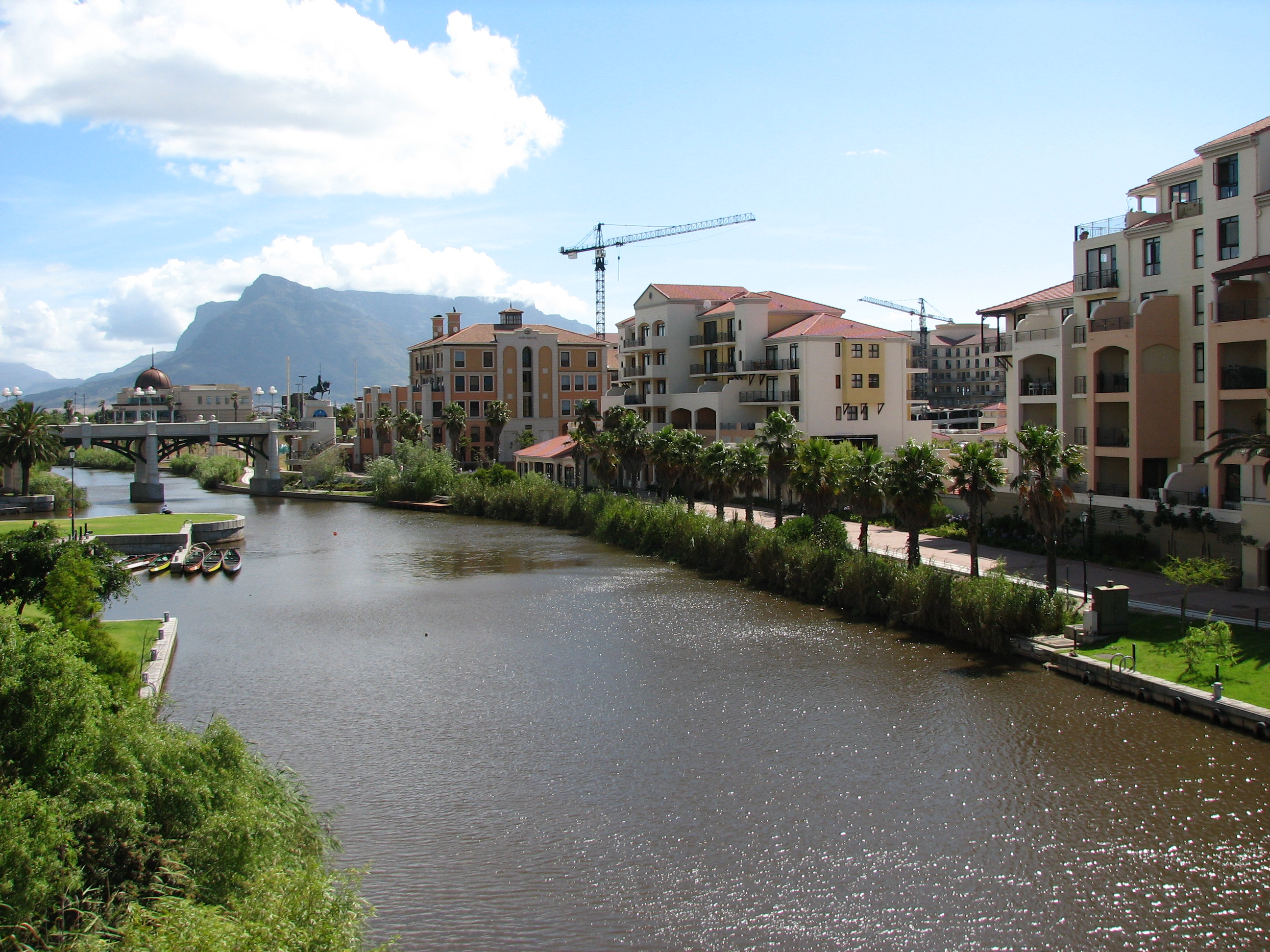 Taken by Myself, Andres de Wet,on 28 December 2006